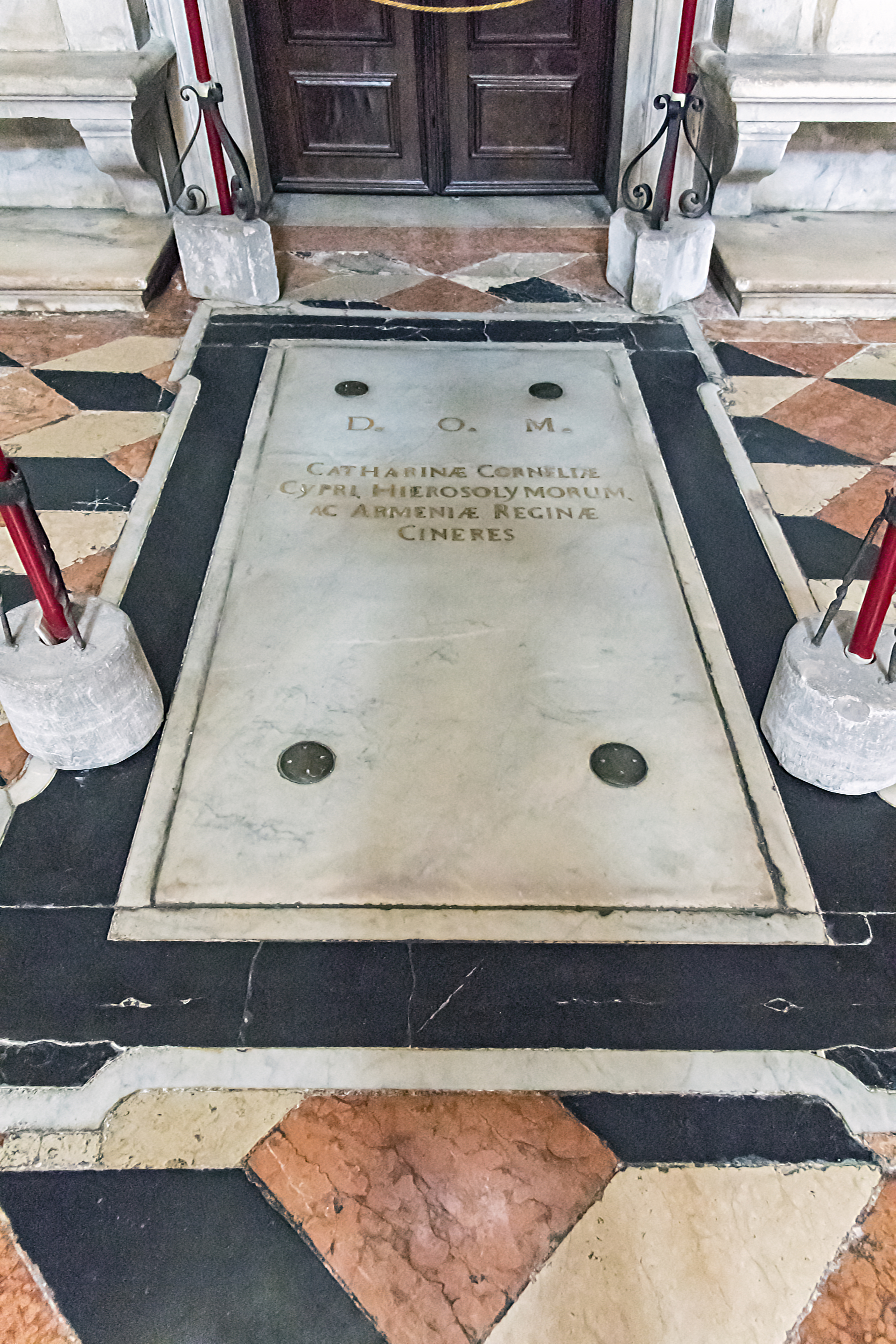 Church of San Salvador, in Venice- The tombstone of Catherine Cornaro.